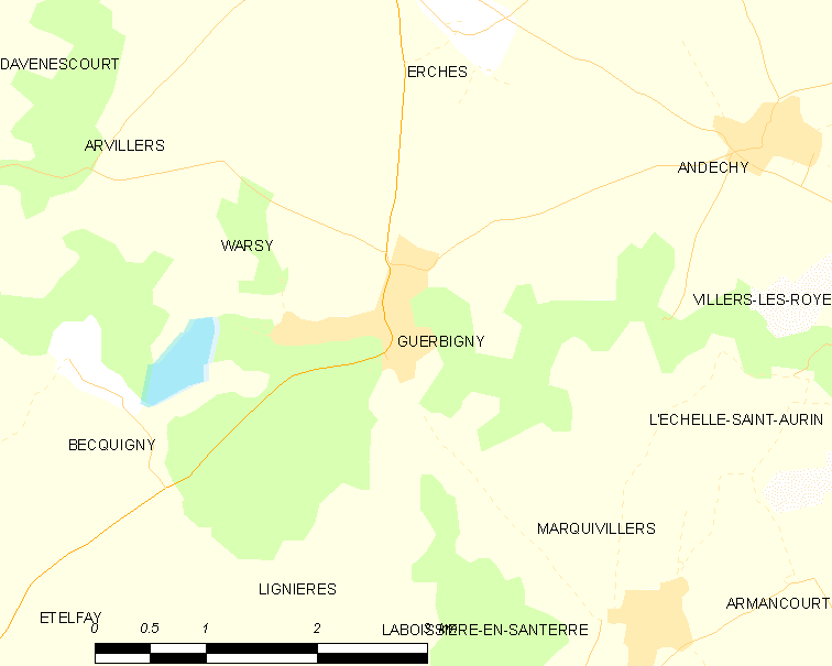 Map of French municipality Guerbigny